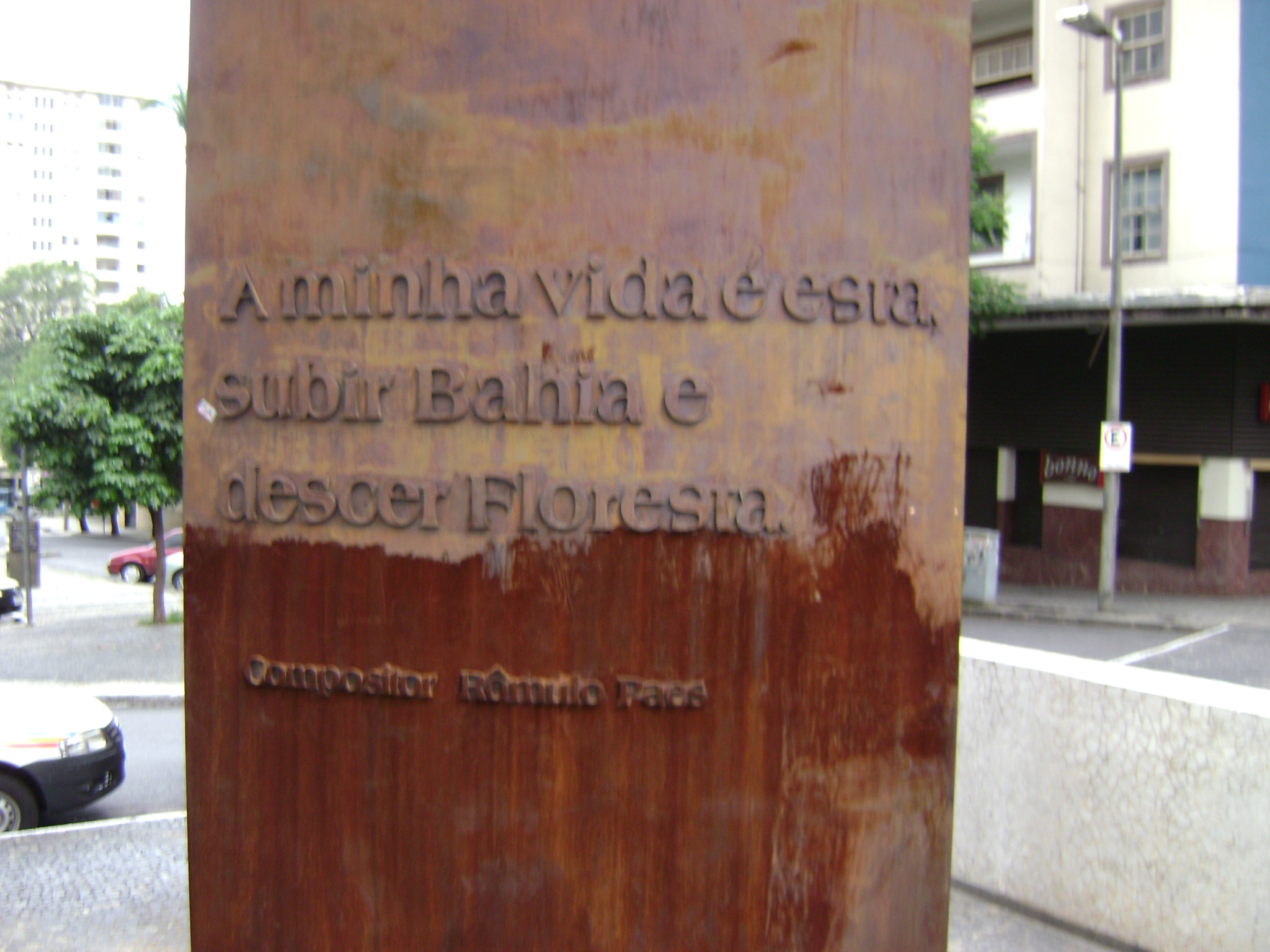 Inscrição na rua da Bahia, em Belo Horizonte.